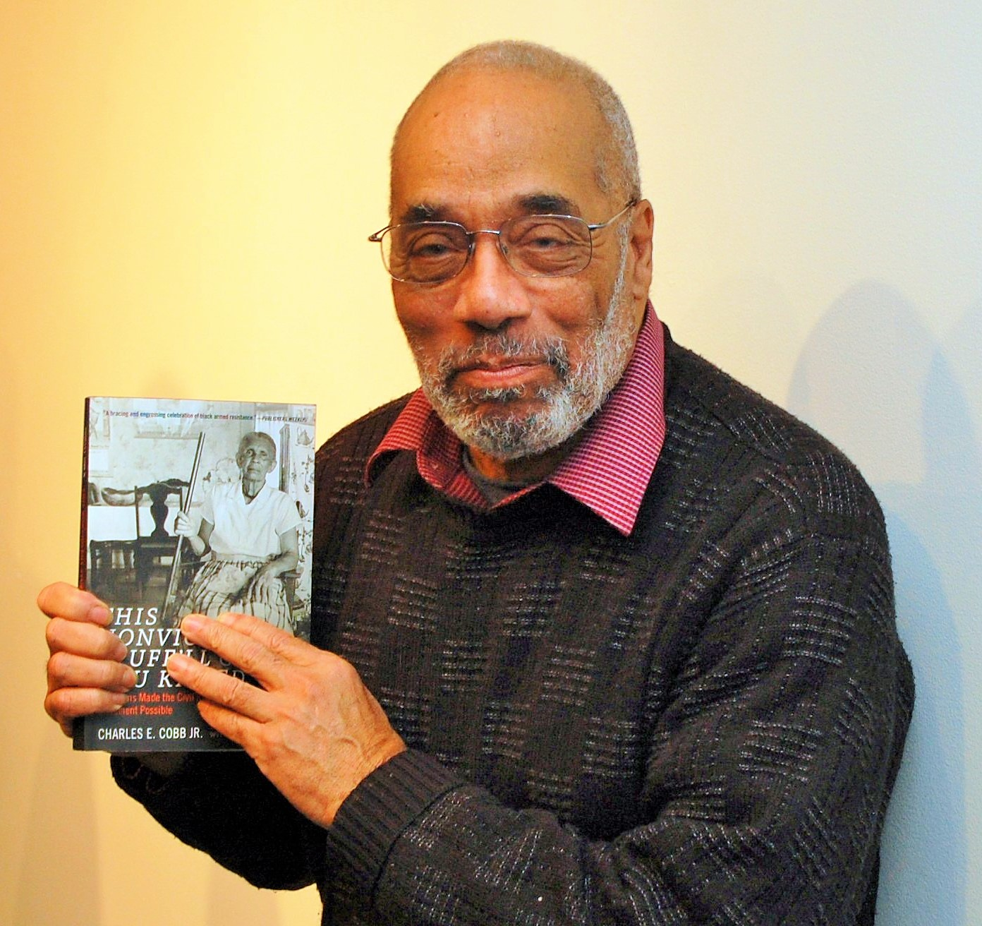 Charles E. Cobb Jr. at a reading for his book, "This Nonviolent Stuff'll Get You Killed: How Guns Made the Civil Rights Movement Possible" at the Potters House in Washington, D.C. on February 27, 2016. By Deborah Menkart.